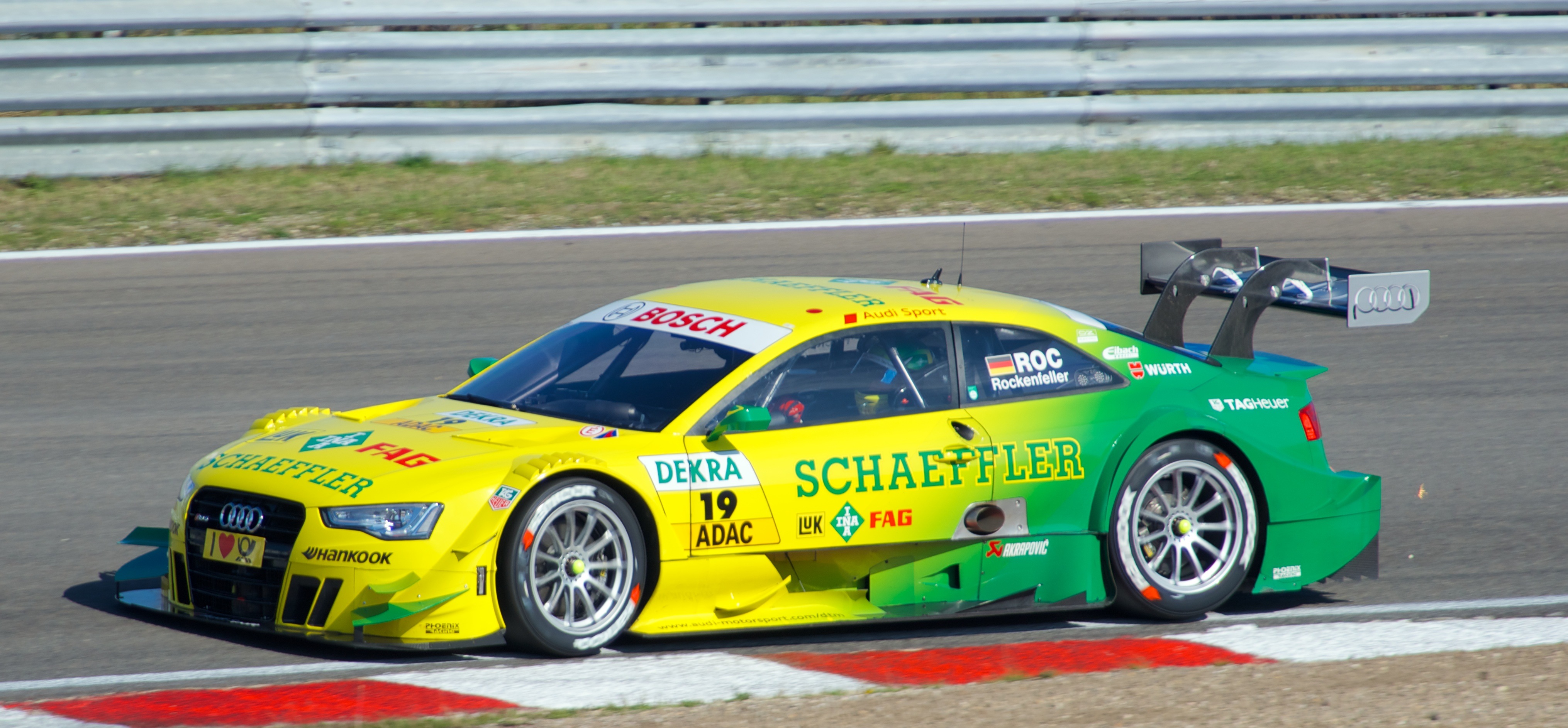 Audi RS5 DTM (R17) of Team Phoenix